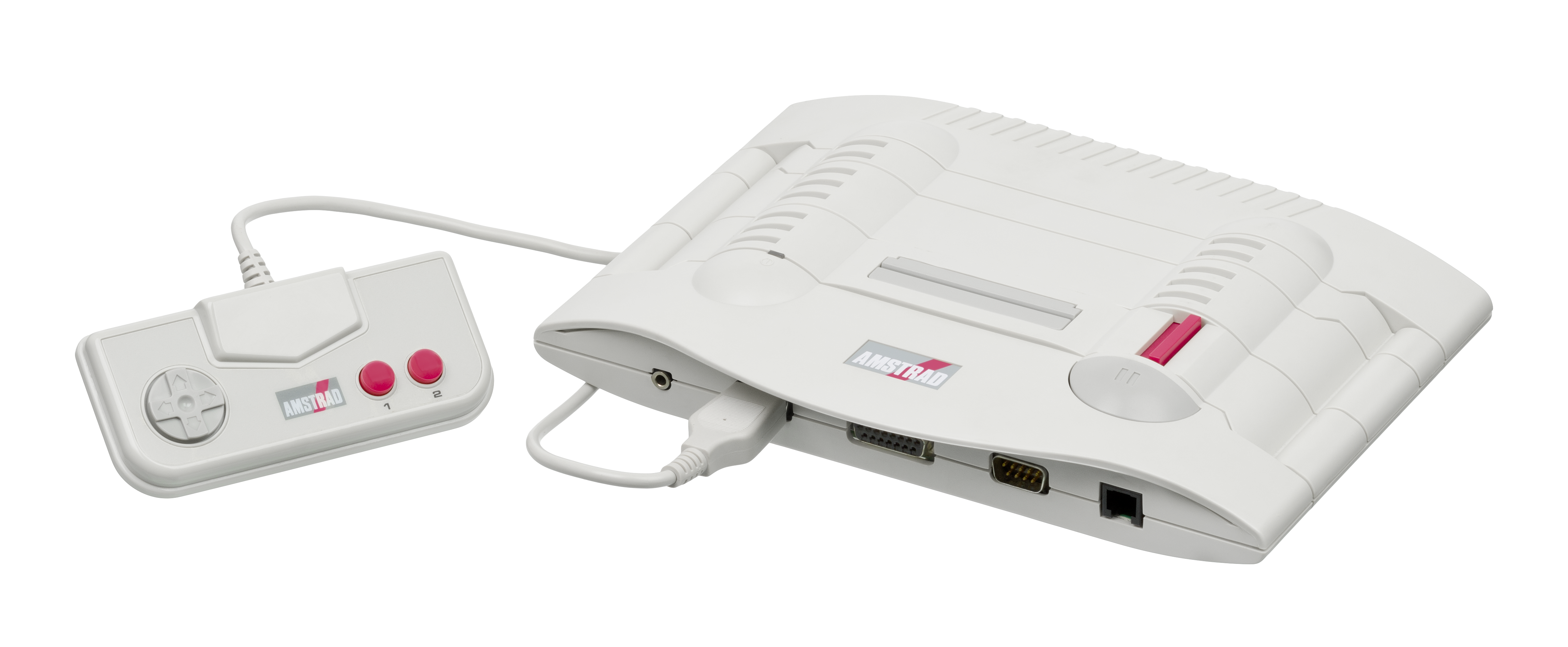 The Amstrad GX4000, a video game console released by Amstrad in 1990. This Europe-exclusive console was a repackaging of Amstrad's line of CPC Plus computers, offering direct conversions of CPC Plus titles. It was only on the market for a short while before being discontinued.